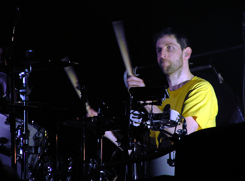 Keane drummer Richard Hughes performing at Glasgow SECC, 29 January 2009.